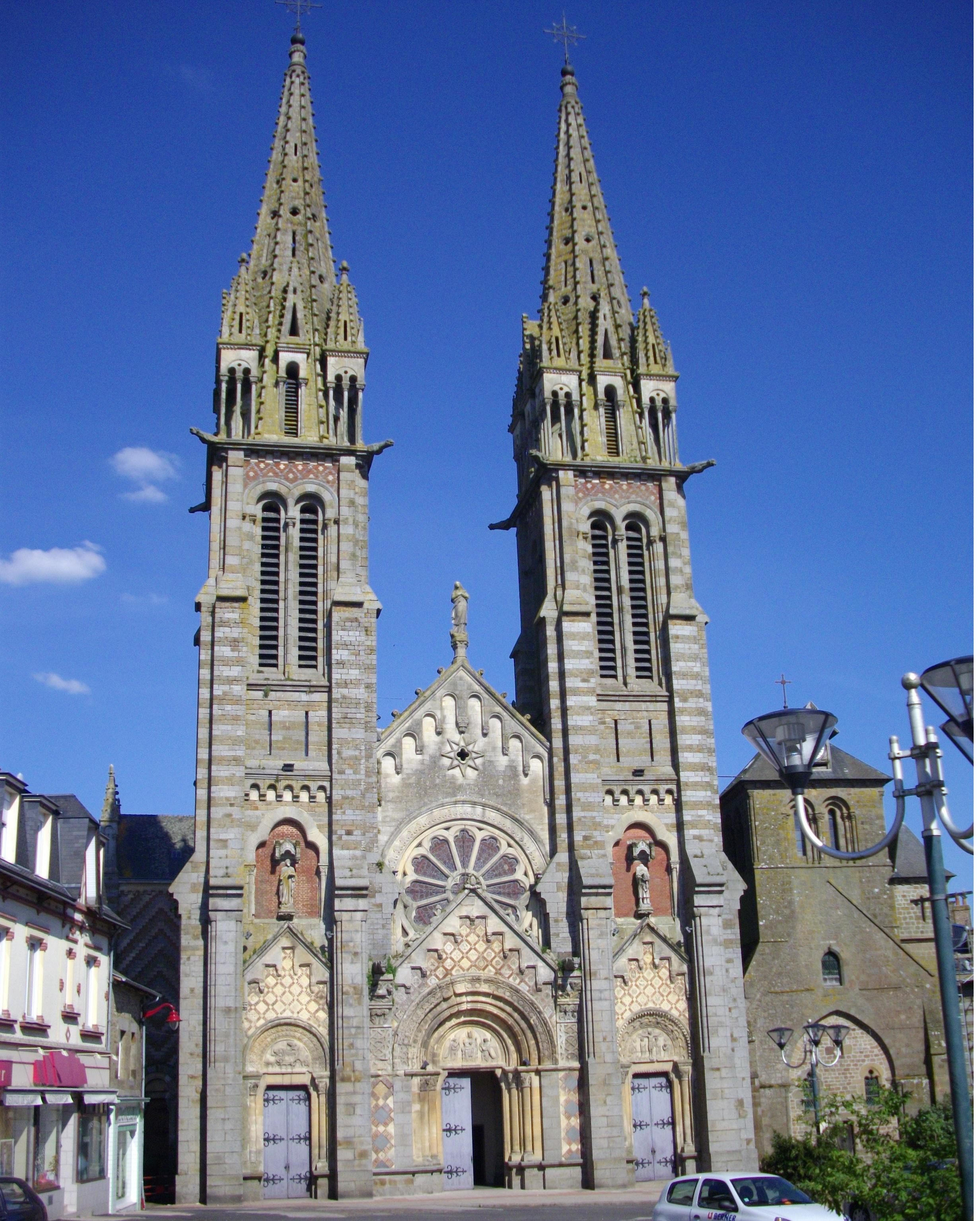 Church, La Ferté-Macé (Basse-Normandie, France)